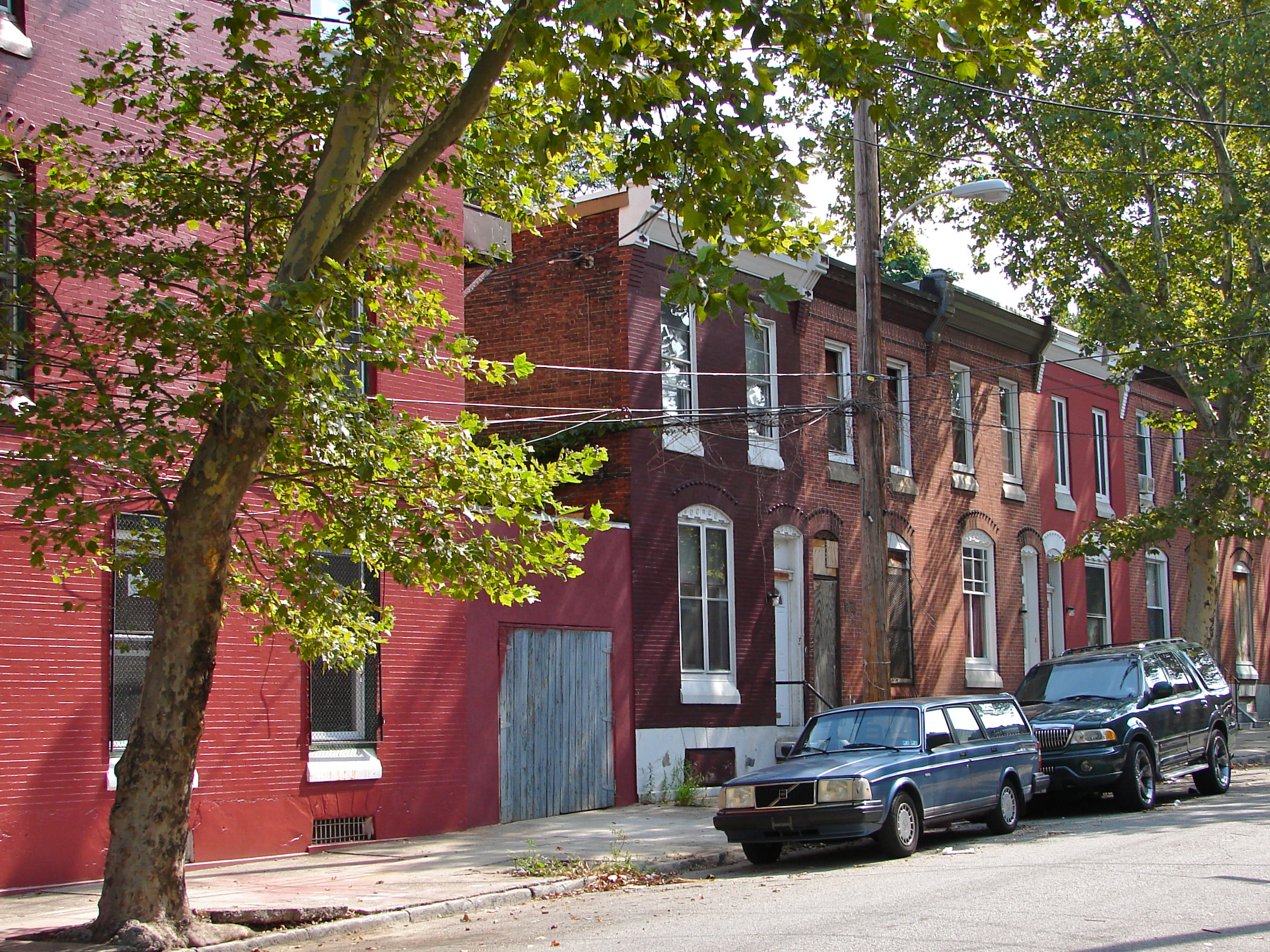 Brewerytown Historic District in Philadelphia, on the NRHP since March 1, 1991. The historic district is roughly bounded by 30th St., Girard Ave., 32nd St. and Glenwood Ave. in Brewerytown neighborhood of North Philly. This particular block is the north side of 3000 block of Stiles Street, 1 block north of Girard, and south of Brewerytown Square.